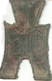 Scan of my own coin